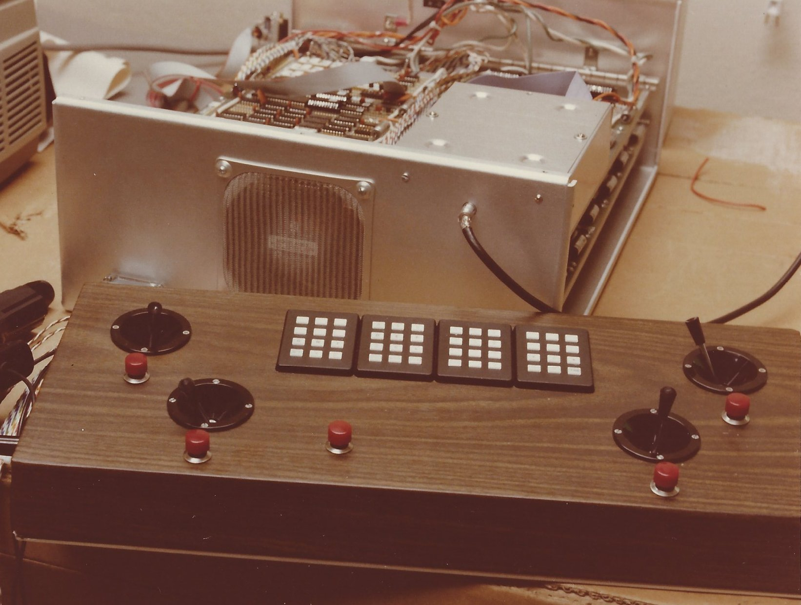 This prototype included breadboard simulations of the UM1 and UM2 chips and was enclosed in a steel case so it could be carried to venues where VideoBrain's capabilities could be demonstrated before the chips themselves were available. This protoyped was used in 1977 at the Hannover Messe and the June Consumer Electronics Show. The keyboard and joysticks were in a separate box. The power supply was in a separate steel case. Sofware was pre-loaded into ROMS on the prototype circuit board.